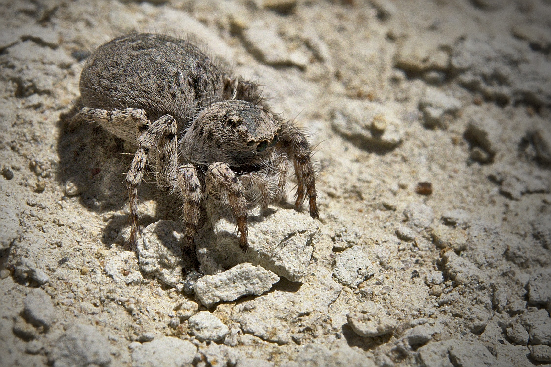 Picture take close to the beach about 20m altitude, identification